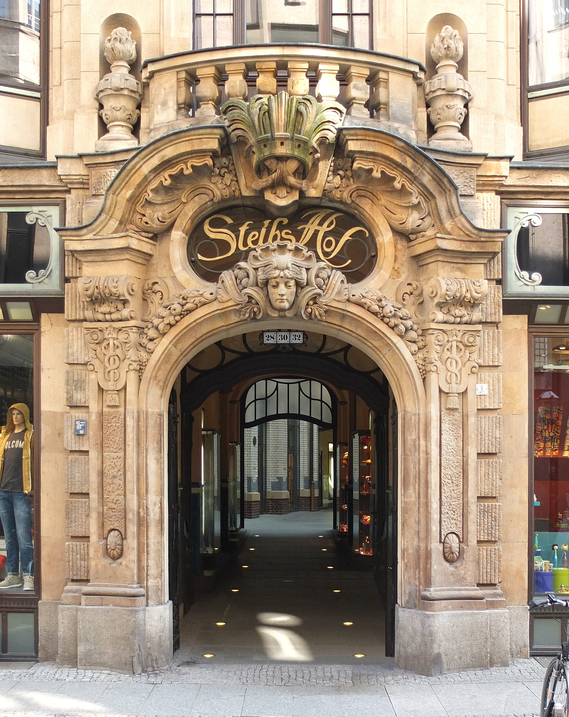 Portal of "Steibs Hof", Nikolaistraße 28-30-32 in Leipzig